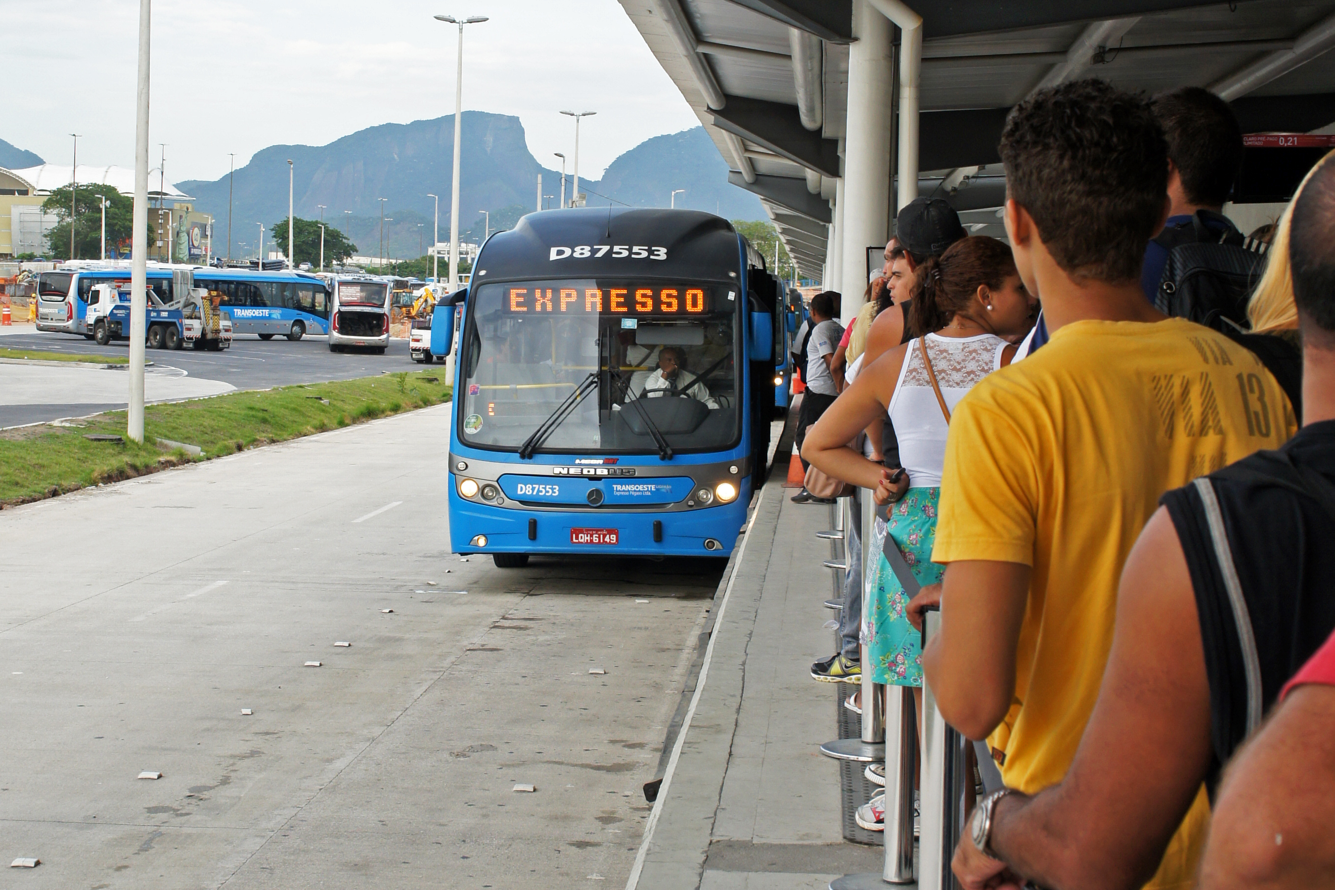 Passengers in line to board an articulated bus from TransOeste at Alvorada Terminal. Barra da Tijuca, Rio de Janeiro.